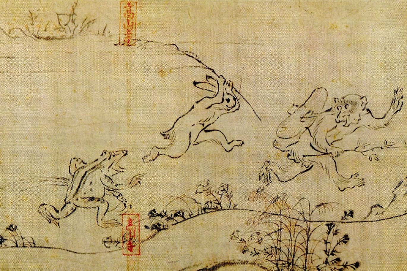 Animal Scroll from Kozanji Japan (detail)